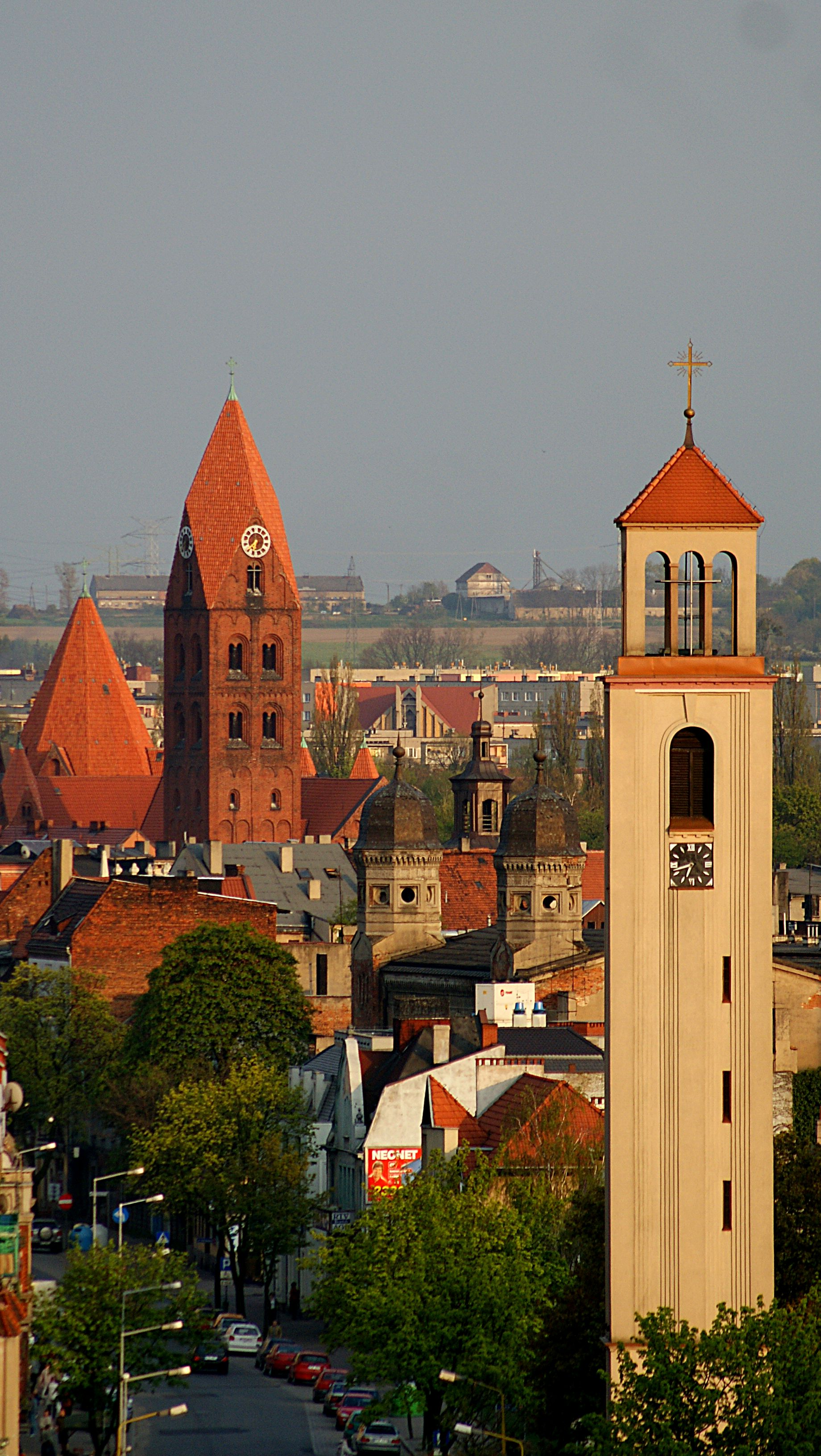 The downtown of Ostrów Wlkp.